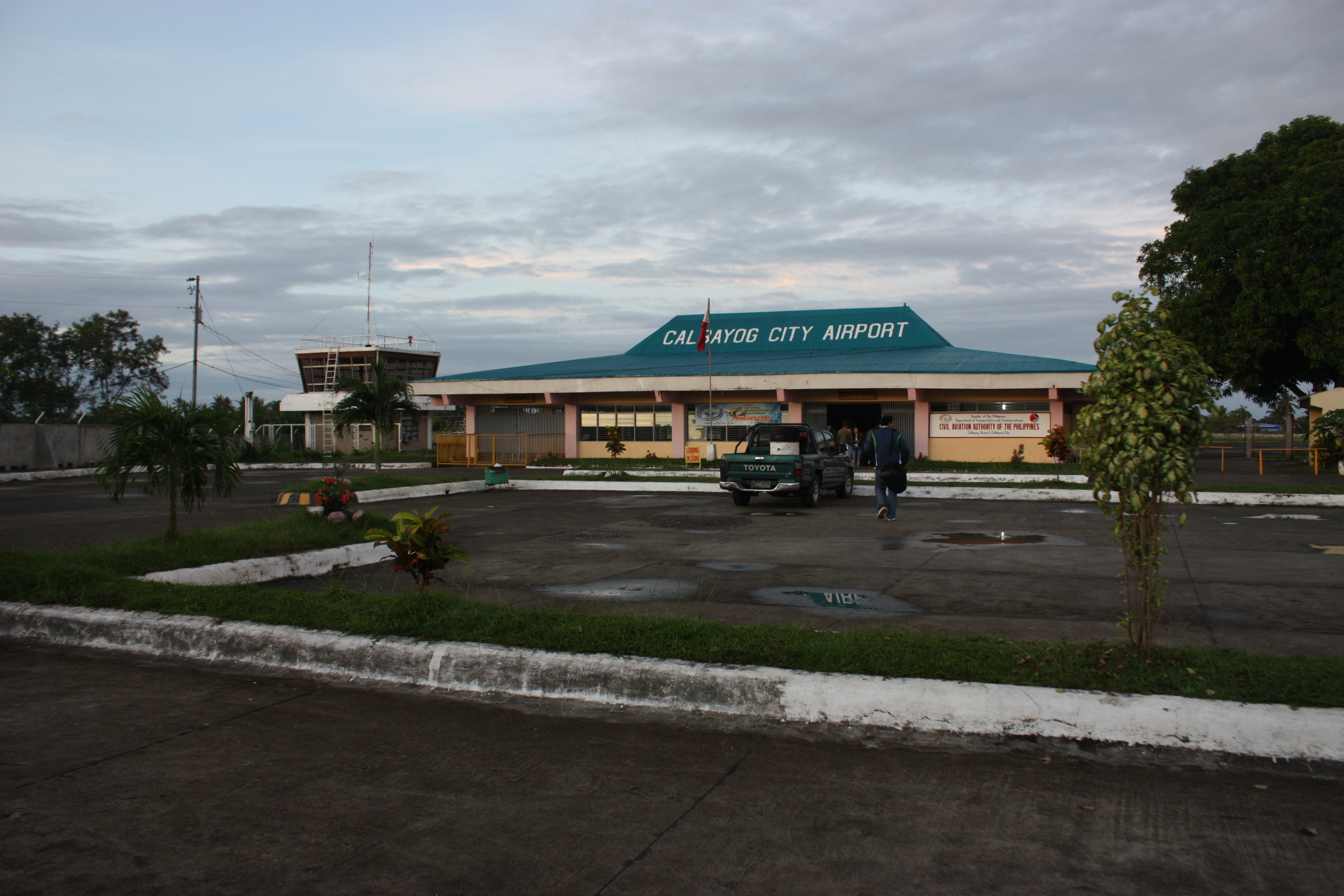 Calbayog airport terminal